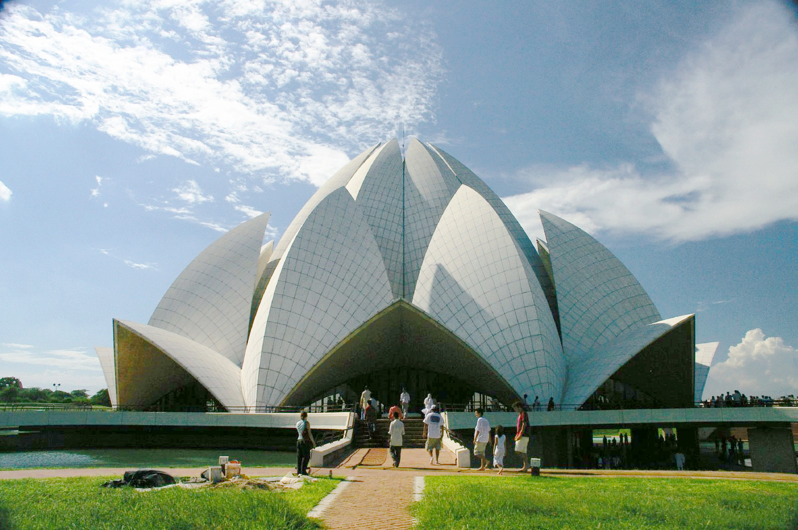 The Lotus Temple, Delhi